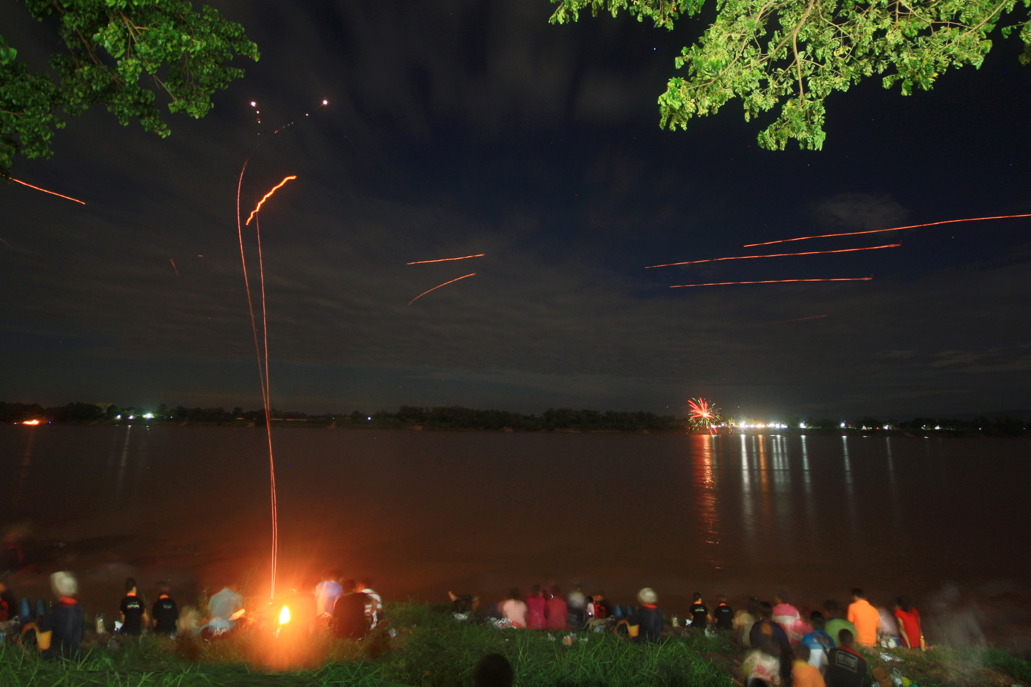 The Beung Fai Phya Nag -- the Naga's Fireballs - are an annual phenomenon always occurring at the end of the Buddhist Rains Retreat (Buddhist Lent, or Ork Pan Sa in Thai). The fireballs, a rosy pink colour, emerge from the Mekong River in and around Nong Khai/Vientiane and shoot a couple of hundred feet into the air before disappearing. Many Thais believe they are hurled into the air by the Phaya Nark, a mythical giant snake that lives in the Mekong. Photos shot with Canon 1000D, with 10mm lens set at f4, exposure 30 seconds.